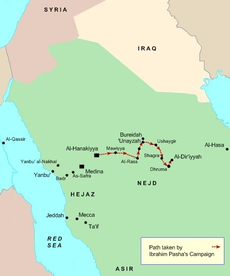 Ibrahim Pasha's Campaign against the Saudis in Nejd (1817-18)